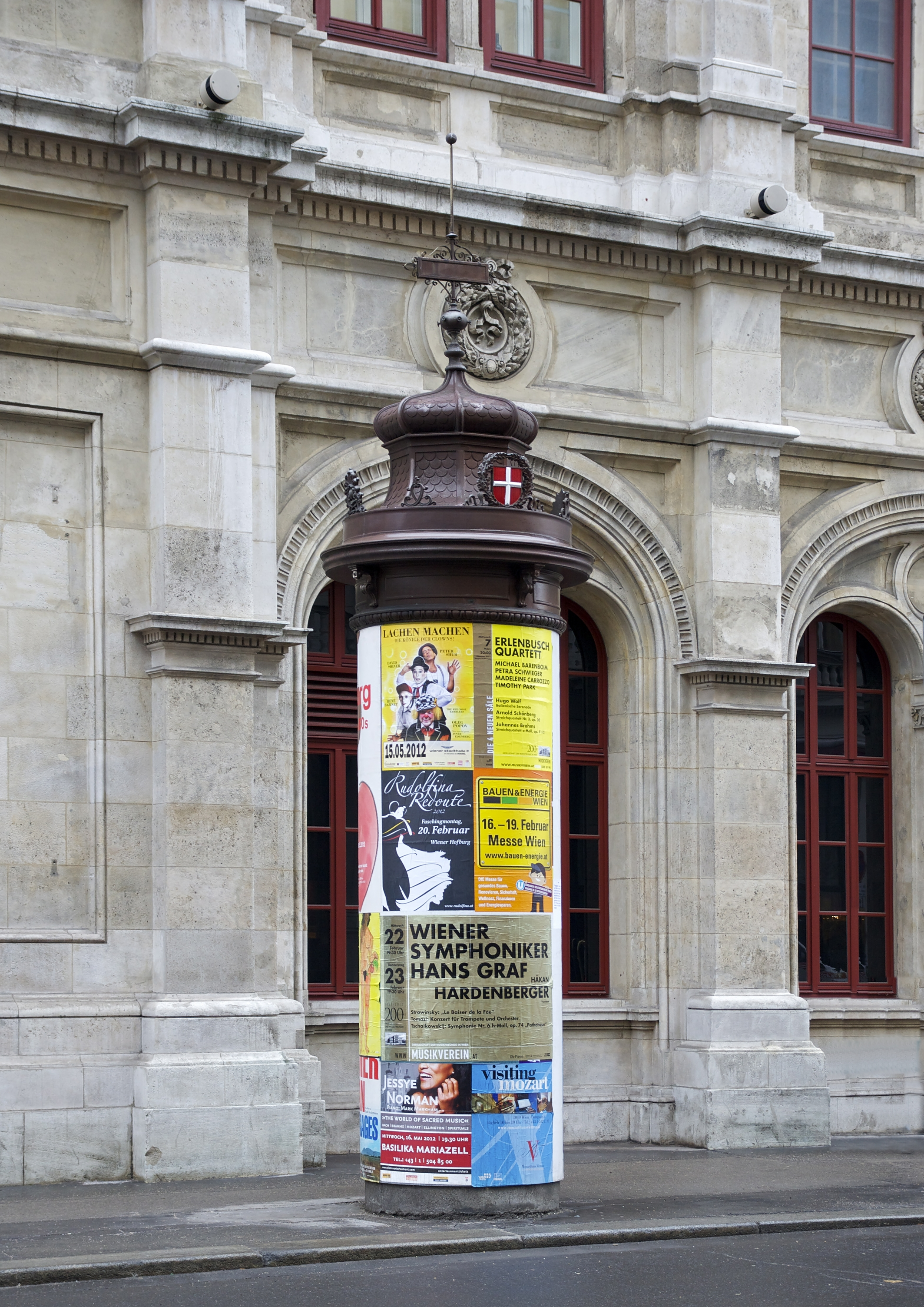 An advertising column, near the State Opera House, Vienna, Austria.